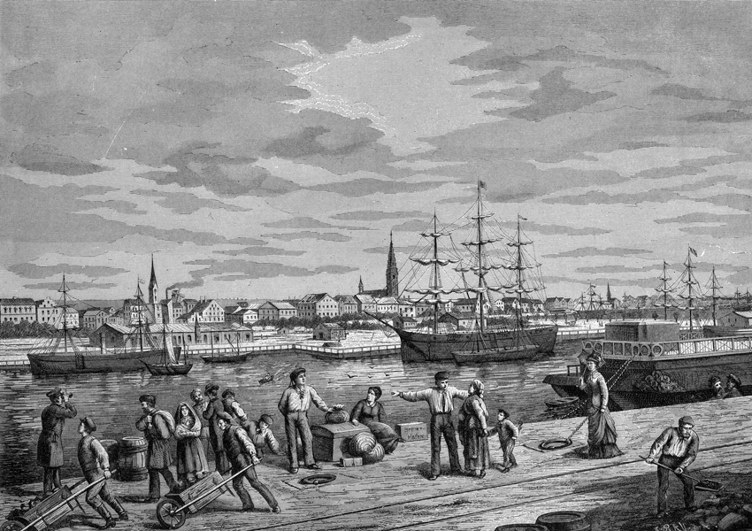 View of the Neuer Hafen (“new port“) of Bremerhaven, Germany, built 1847–1852. Lithography by W. Wiegmann from the year 1880.